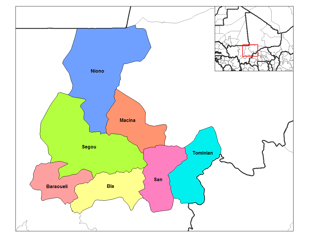 Map of the cercles of Segou region in Mali. Created using MapInfo Professional v8.5 and various mapping resources.